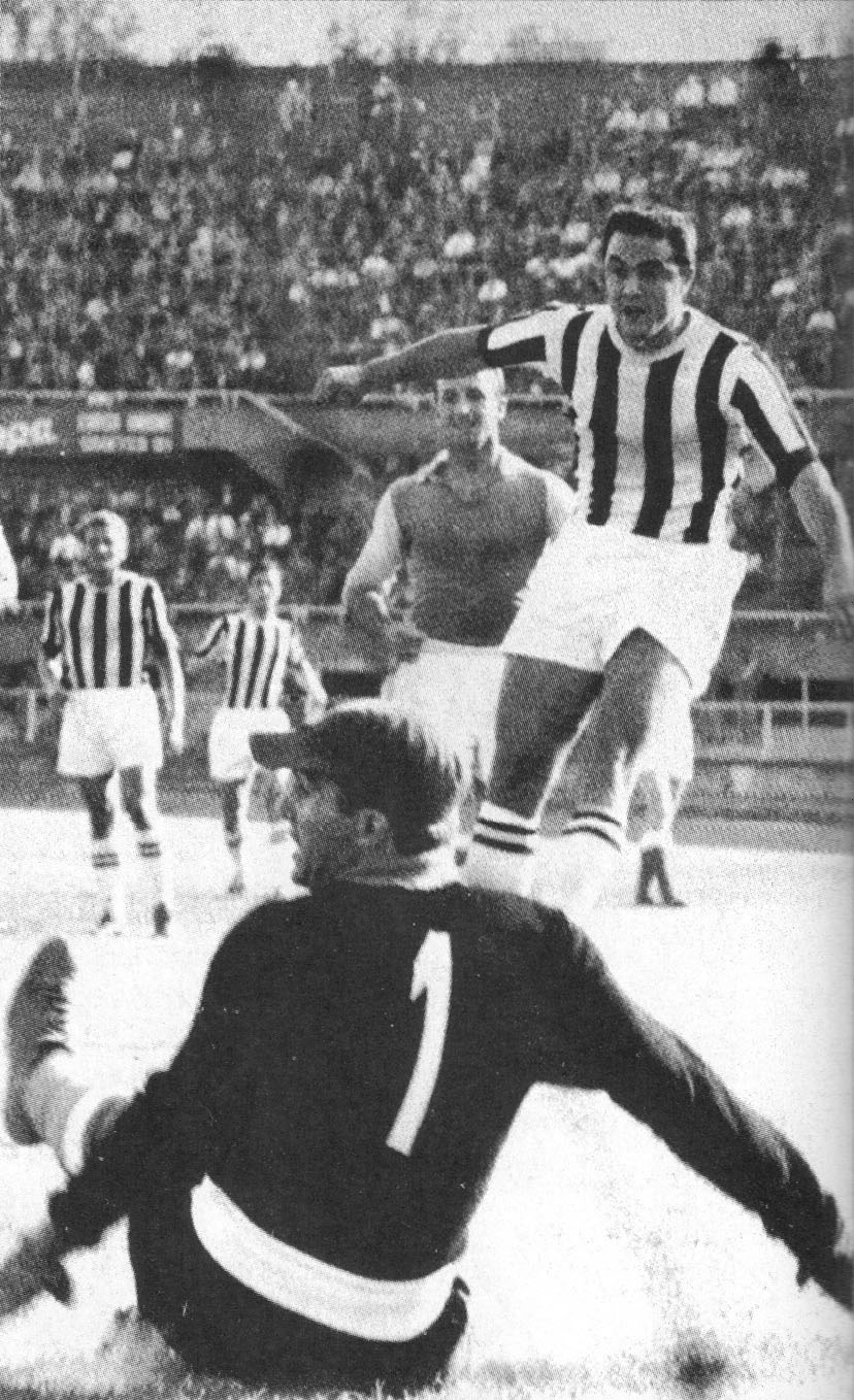 Turin (Italy), Communal Stadium, September 18, 1955. Juventus F.C. — S.P.A.L. 2-2, Matchday 1 of Italian League 1955–56 Serie A: Juventus' forward Juan Apolonio Vairo Moramarco (right) in action.